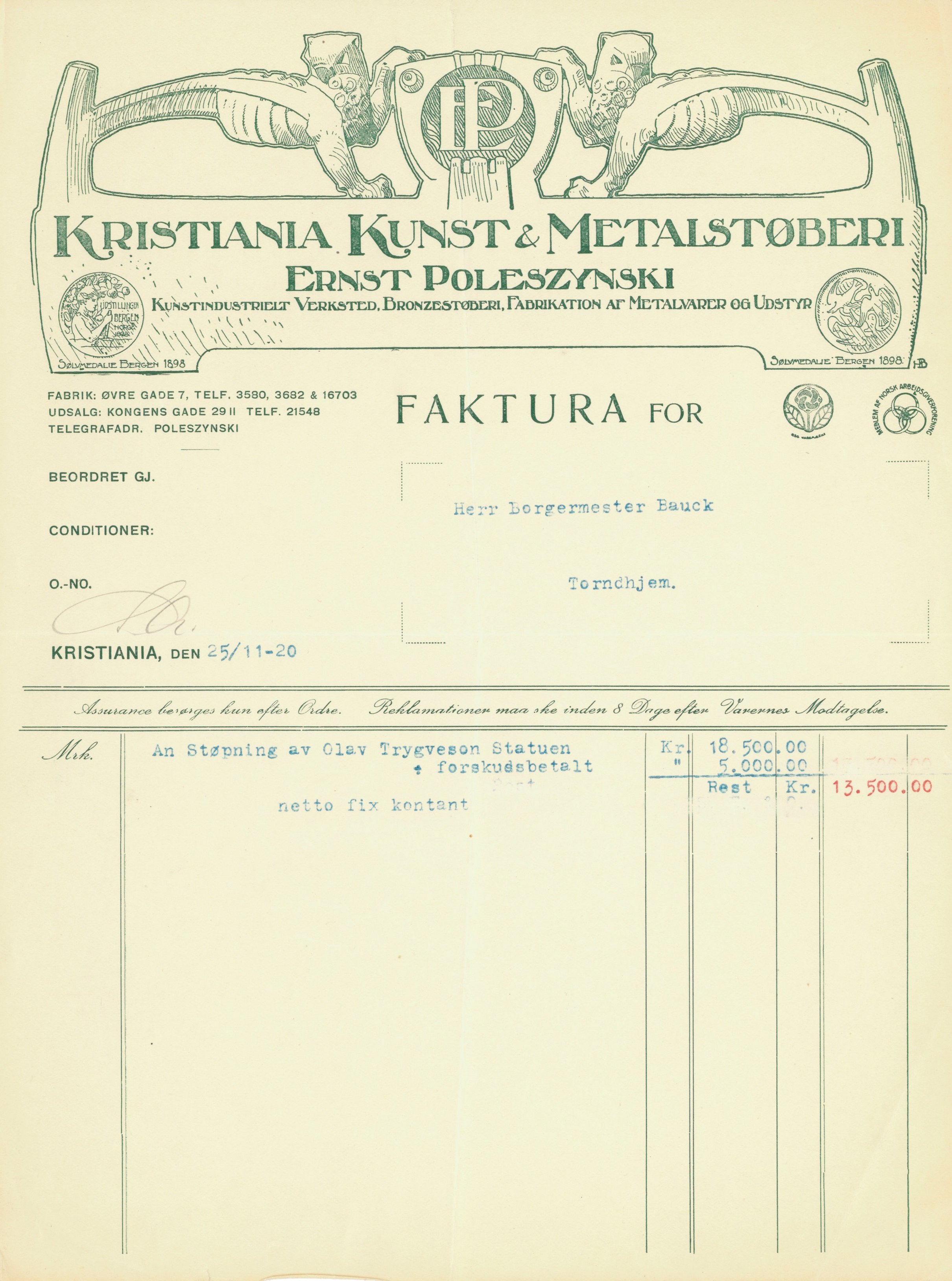 Invoice